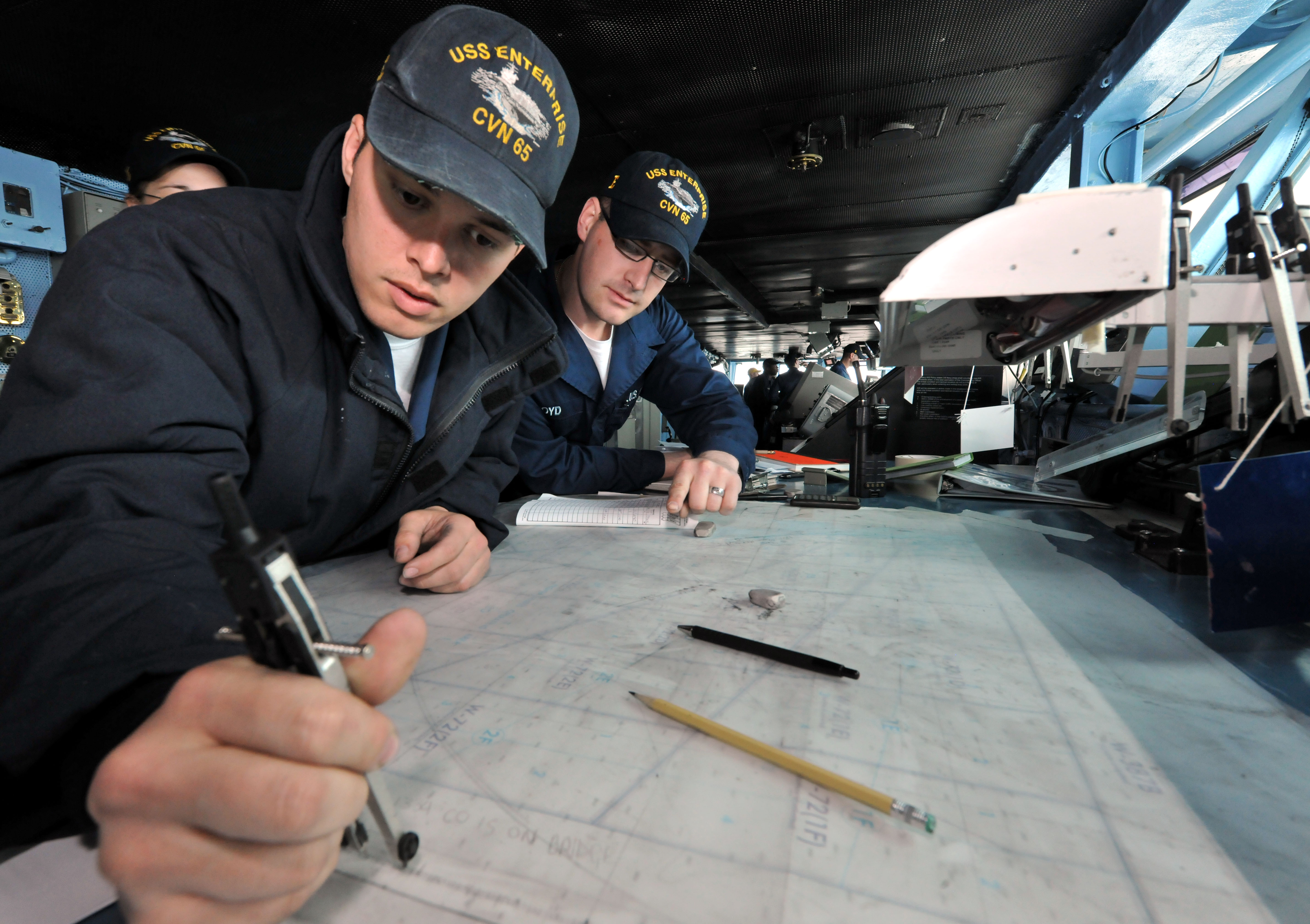 ATLANTIC OCEAN (May 17, 2010) Quartermaster Seaman Zachary W. Hollis uses a compass to plot the ship's position on an operational-area chart while Quartermaster Seaman Bobby L. Boyd observes aboard USS Enterprise (CVN 65). Enterprise and Carrier Air Wing (CVW) 1 are conducting carrier qualifications in preparation for work-ups leading to the ship's 21st deployment. (U.S. Navy photo by Mass Communication Specialist Seaman Jacob D. Galito/Released)